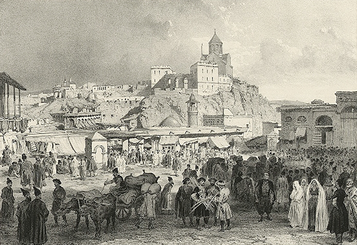 Maidan, Bazaar Square. Tbilisi